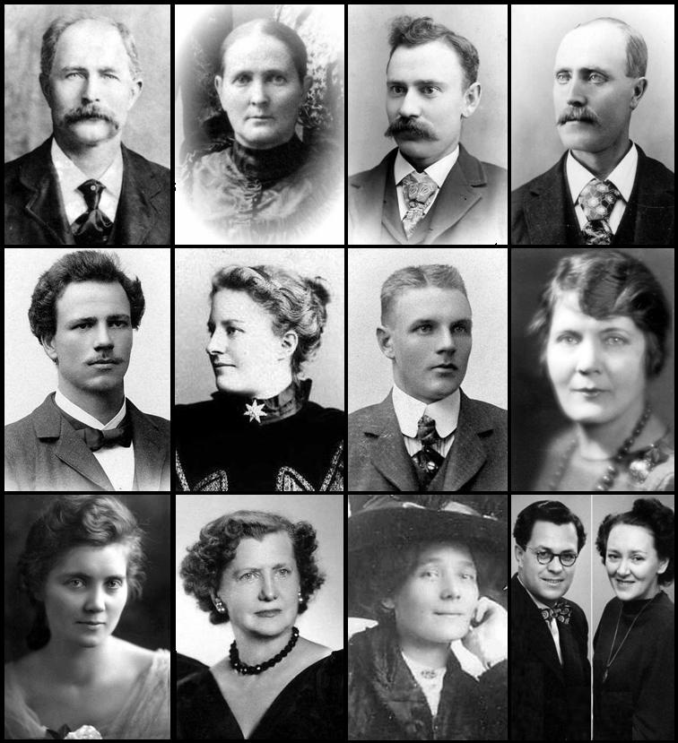 Collage of Swedish American pioneers (l-r, t-b): Niels Truhlsen (1847-1921), Anna Truedsdotter Hansen (1851-1922), Nels M. Nelson (1866-1953), Carl E. Johnson (1855-1909), John Ridderstedt (1875-1952), Thekla F. Jansson (1871-1910), Erland P. Ridderstedt (1883-1965), Olga Cloake Smith (1888-1933), Anna Bonander Mohlin (1890-1967), Anna Andersson Korn (1891-1987), Tekla Bonander Nilsson (1892-1983), C. Erik Ridderstedt (1915-1982) & Birgit Anderson RidderstedtPlace: Sweden and the United States